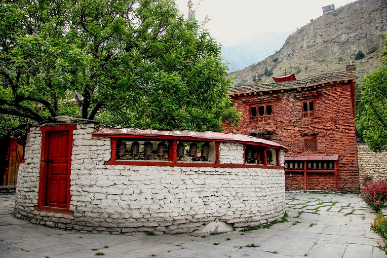 Shamba/ Shmabha/ Tsamba gompa (Kamtsang Dargye Choekhorling Monastery), Tukuche, Mustang, Nepal